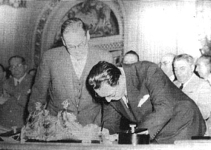 President of Argentina Juan D. Perón signing the deed for which all the railway network in Argentina became state-owned.